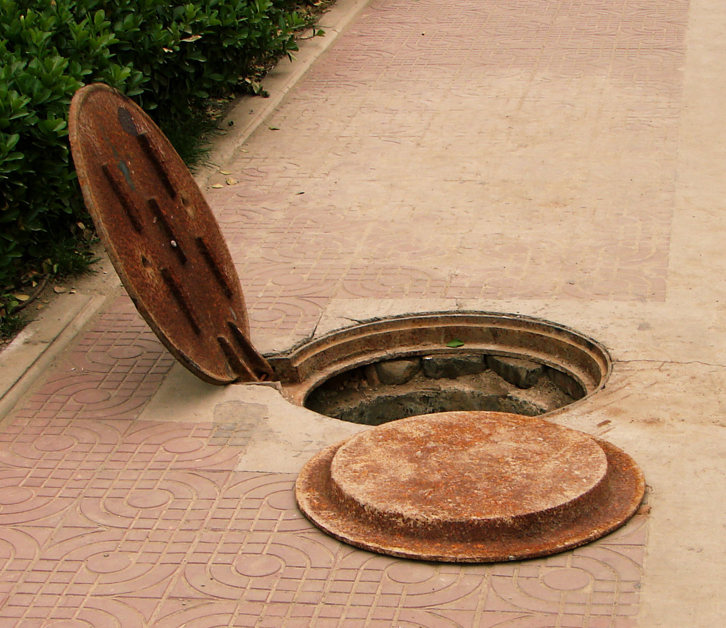 An open manhole in Yuncheng, China.